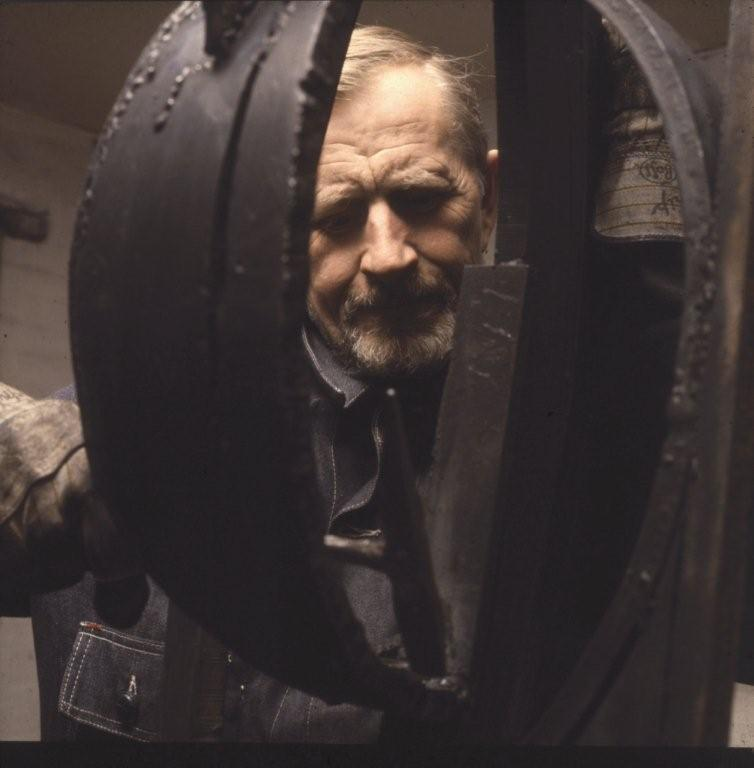 Portrait of norwegian painter and sculptor Jørleif Uthaug (1911-90) ca 1970 working on his own iron sculpture